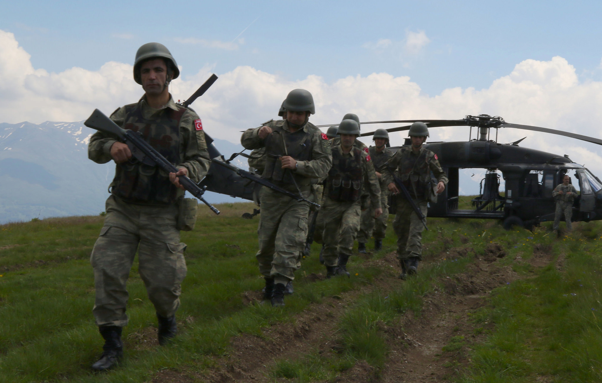 A team of Turkish soldiers, serving as a reactionary force for the Multinational Battle Group-East, transfer from a UH-60 Black Hawk to a Swiss AS-332 Super Puma in response to a downed air craft scenario during Operation Icarus in Kosovo, June 8, 2016.